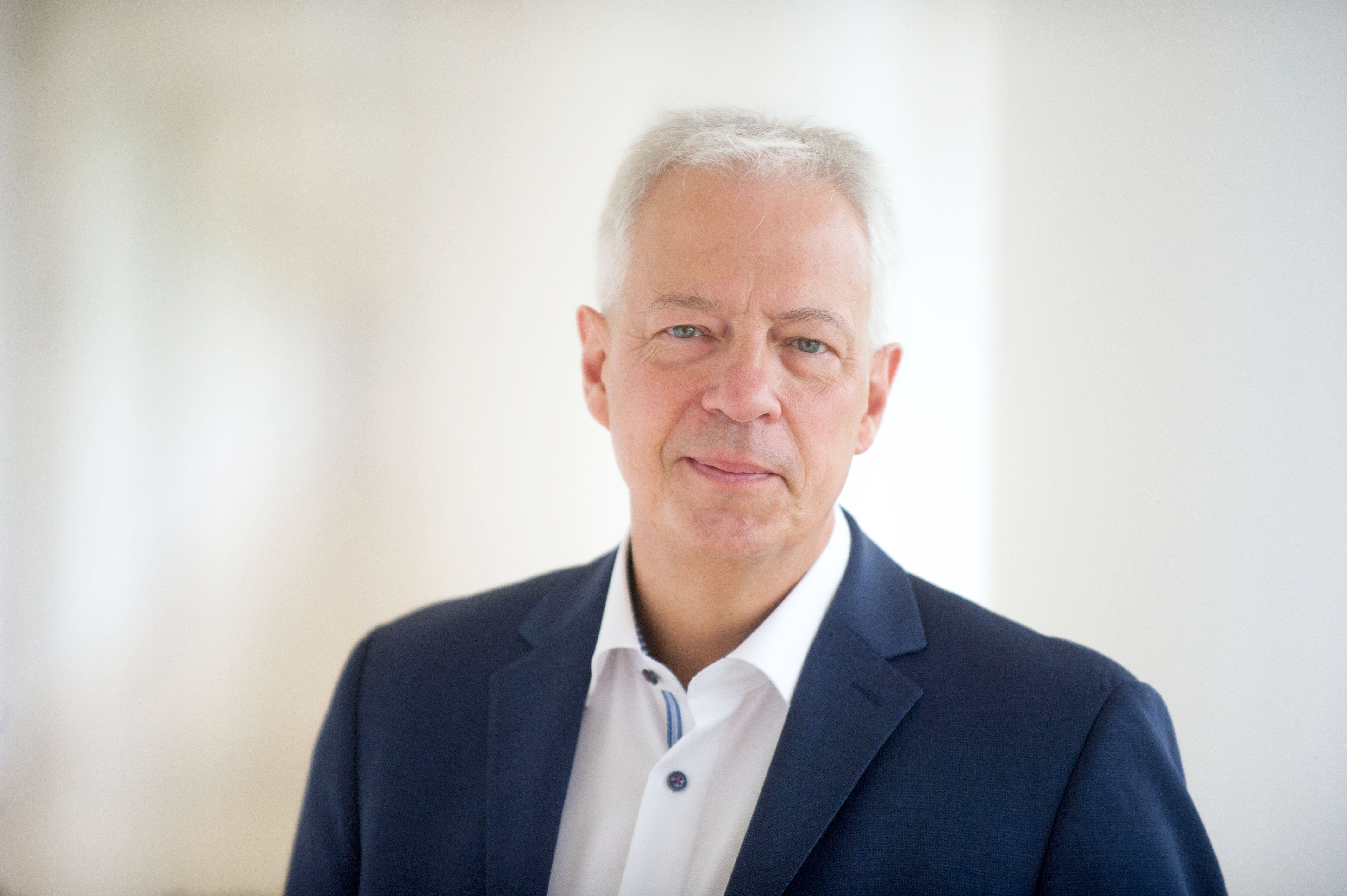 Picture of Markus Töns, Member of Parliament